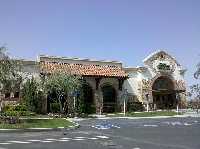 This is a location in Anaheim Hills